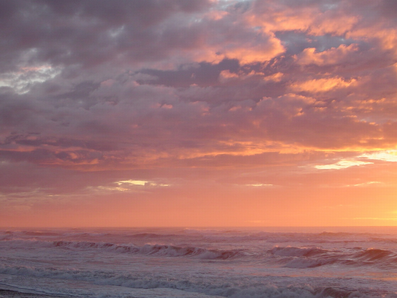 Photo of the beach of Greymouth, New Zealand at sunset on 30 December 2006.